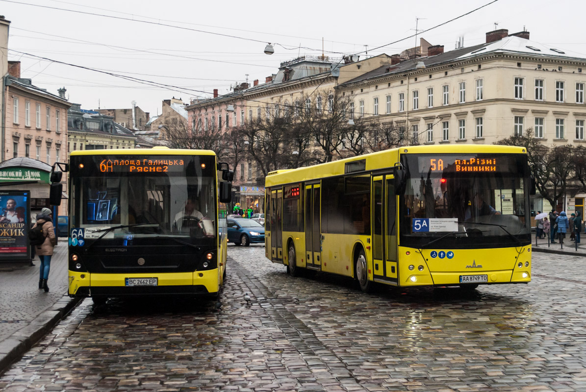 Electron A185 and MAZ 203 buses are the basis of the modern bus fleet of Lviv